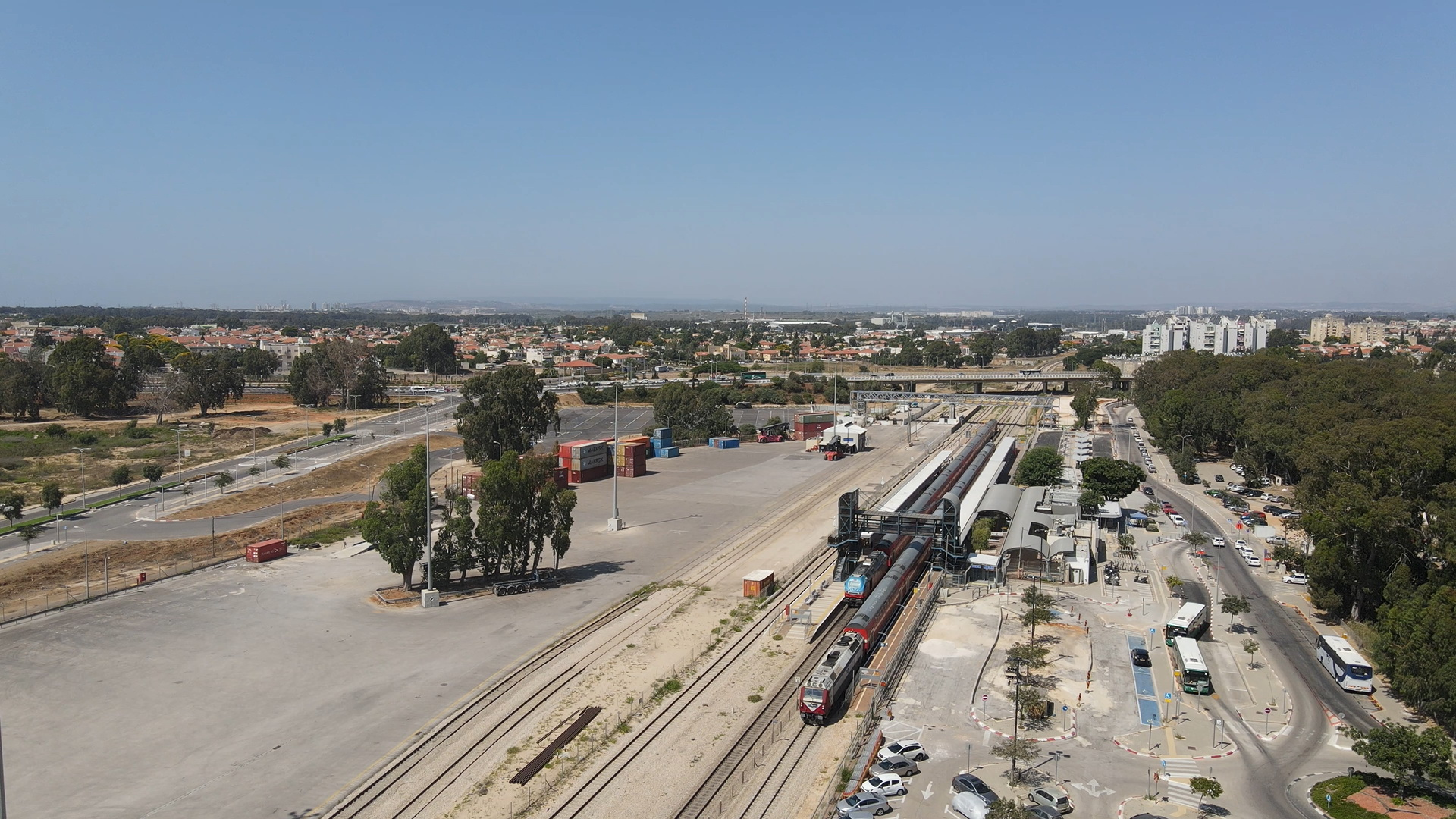 Hadera West railway station and its cargo terminal